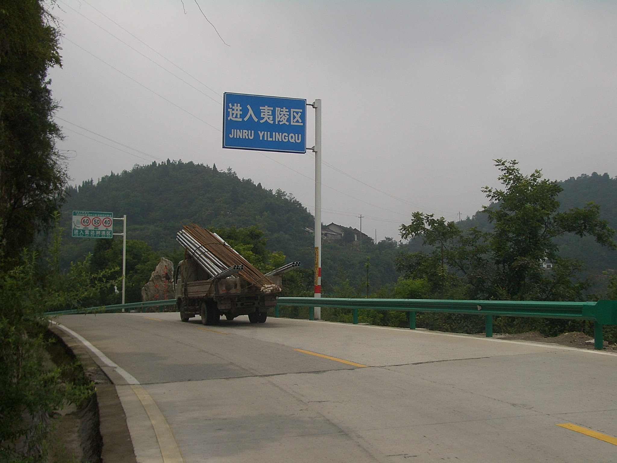 On Hubei route S334 in Yiling Disrtrict west of Yichang .